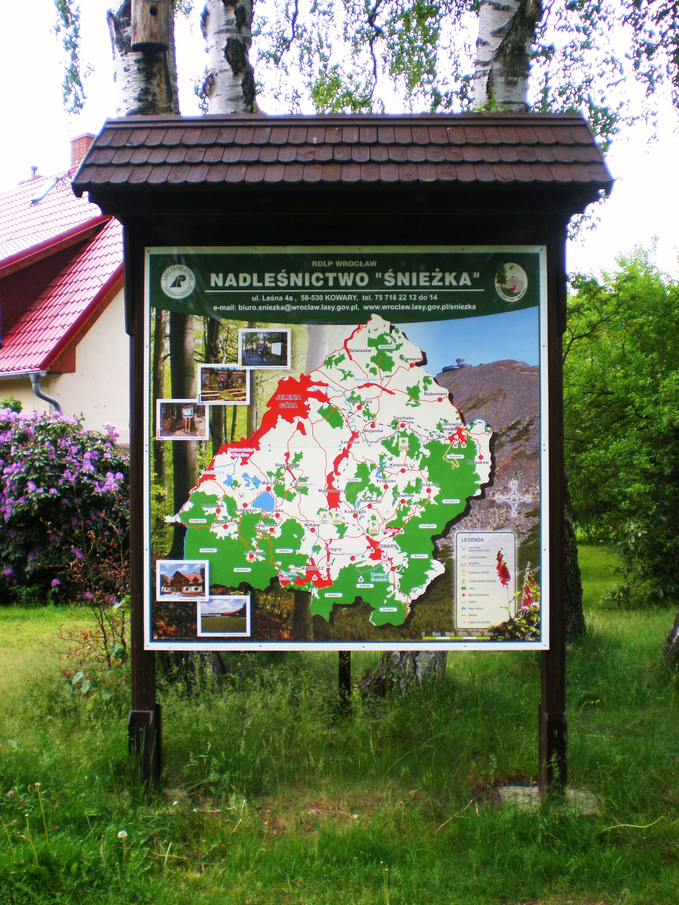 Janowice Wielkie - Kopernika Street - forester